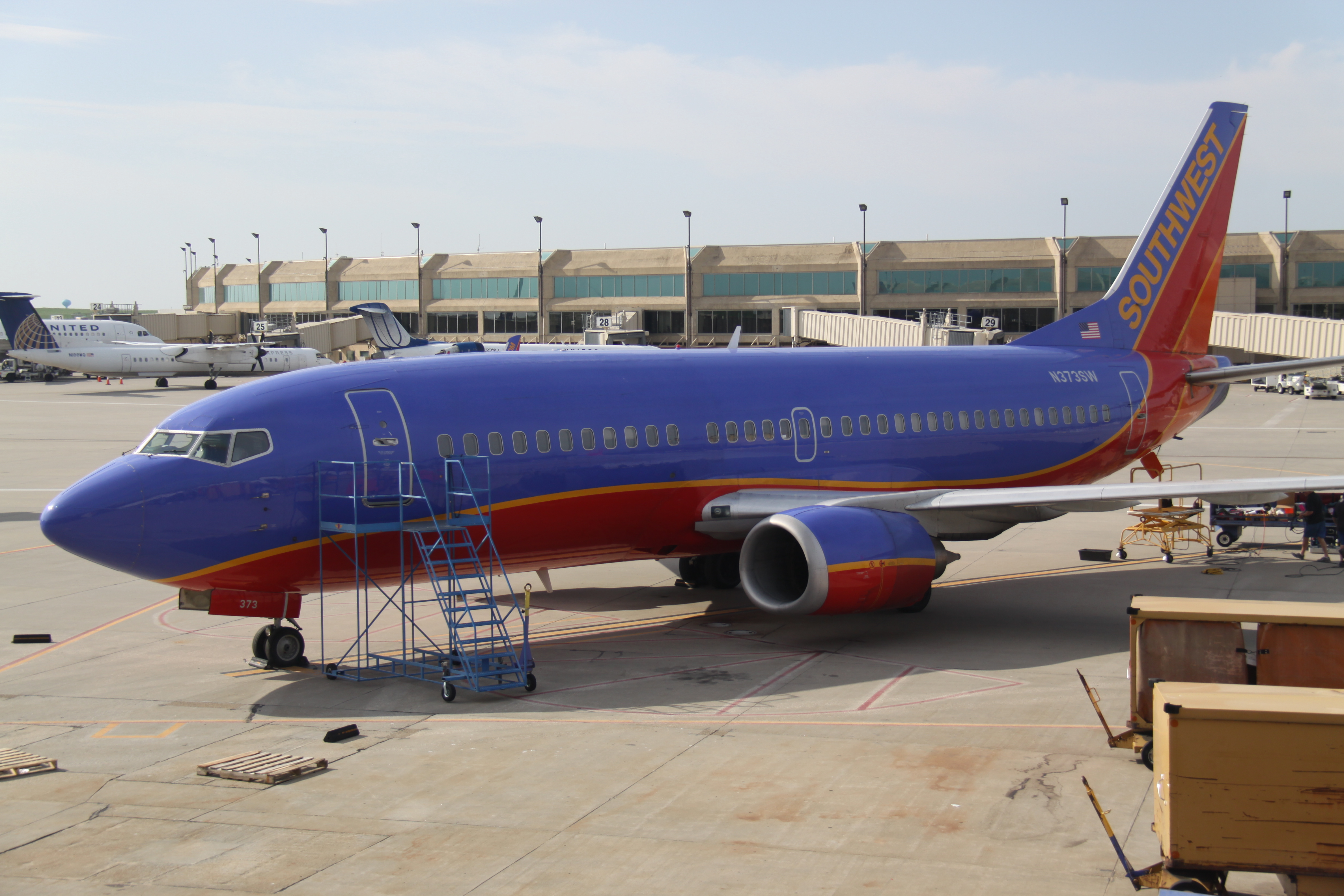 At Kansas City International